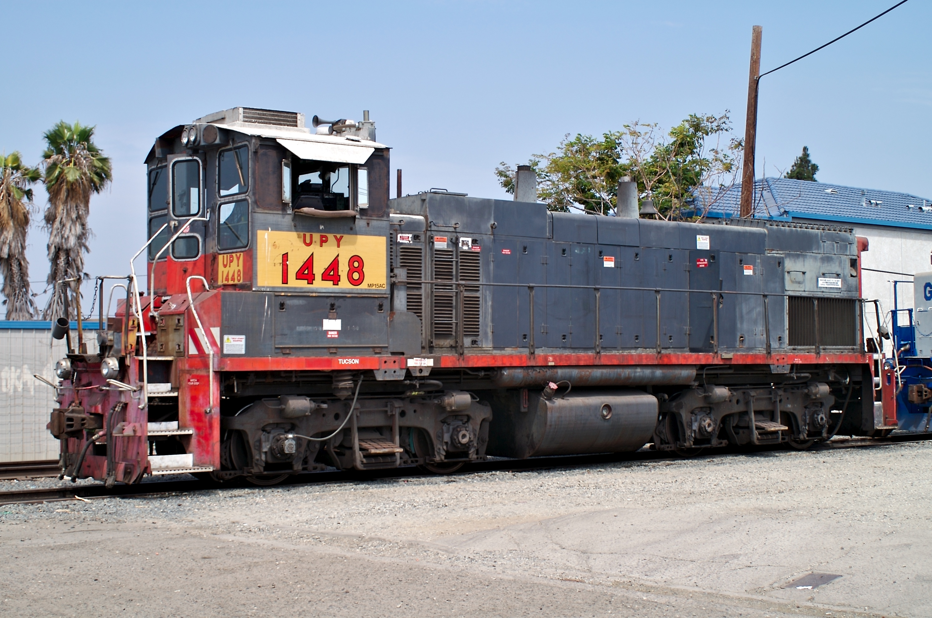 EMD MP15AC switcher locomotive, rear end. This is often treated as the front by crews, who prefer the improved visibility.